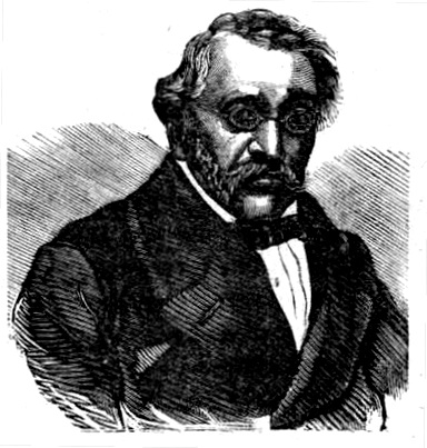 Alexandros Mavrokordatos (1791-1865): Prime Minister of Greece